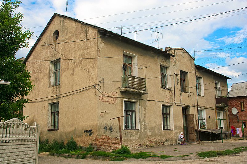 Former Armenian church